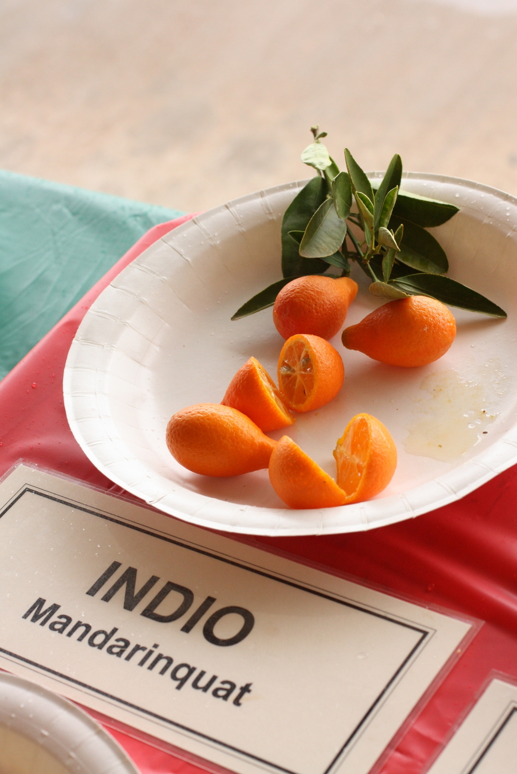 Fresh-Picked in AZ. I found another FPS kind of event down here while visiting my folks in Arizona: a citrus-focused gardening clinic at a local u-pick. Although there is some citrus info that will be useful to Seattleites, I am sort of reluctant to post this because my initial Instagrammed pix posted to my personal Facebook elicited the following comments: "You're killing me" and "This makes me want to cry a little." And I generally try to be sensitive that this might not be the best time to post too many sunny state pix. But if it makes anyone feel any better, while this day did have an envy-inducing quantity and variety of citrus, it was POURING rain. So bad that in the hour it took me to drive there, I almost turned back twice.